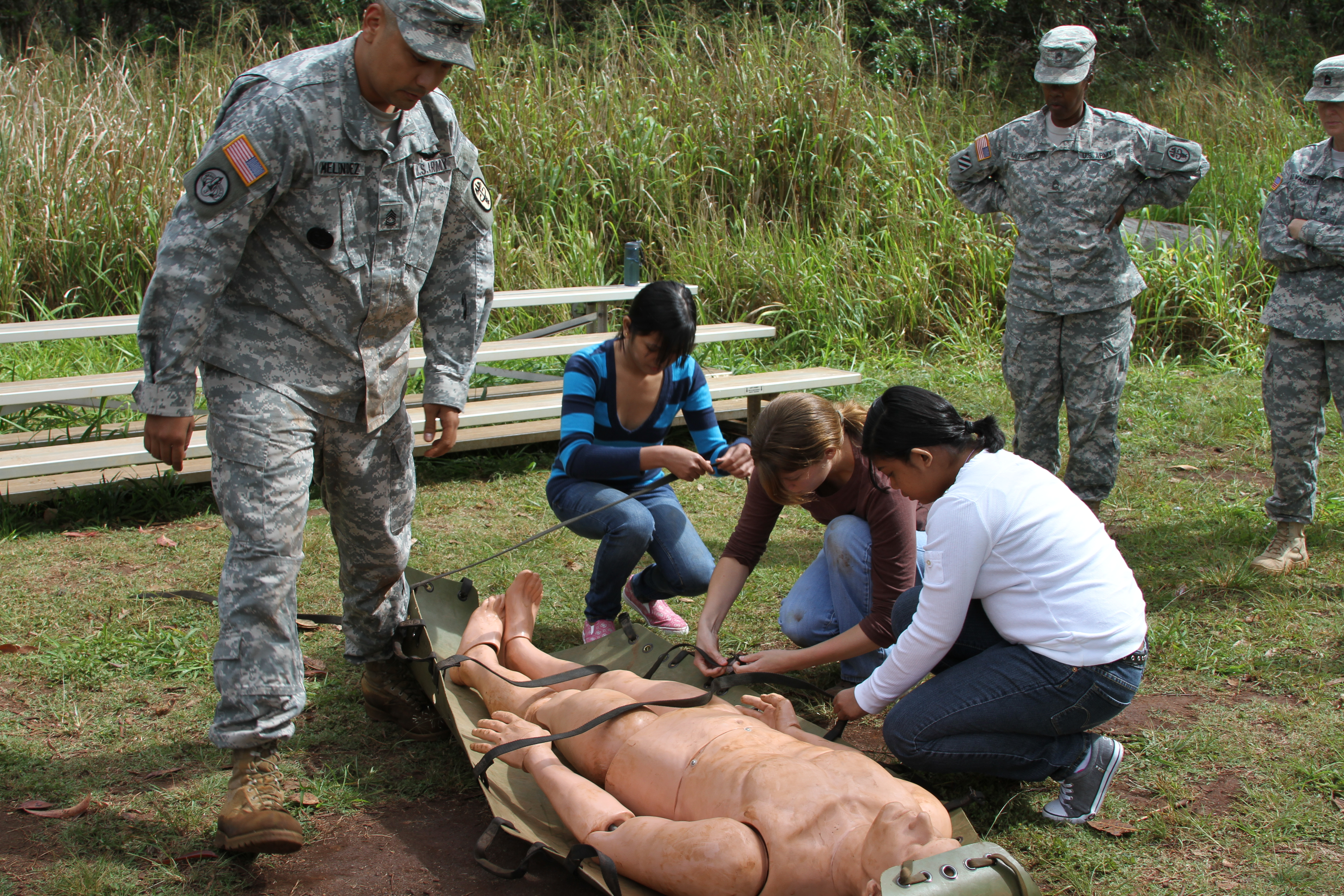 Sgt. 1st Class Jaime Melendez, Allergy and Immunization Clinic, Department of Medicine, Tripler Army Medical Center, and Medical Explorer Advisor, instructs Sheryll Baliscao, Moanalua High School; Heather Briere, Kalaheo High School; and Jaimevel Dahilog, Radford High School; on how to secure an injured patient into a litter, or stretcher, during a Medical Explorers Post 1948 off-site, April 7, at Schofield Barracks.